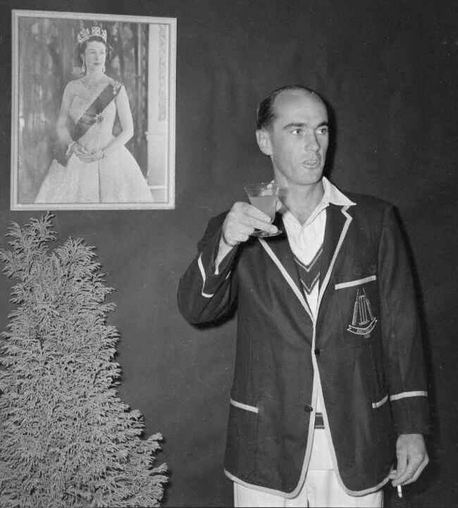 Portrait of Australian Cricket Captain Ian Craig toasting the Queen within an unknown building, probably Wellington City